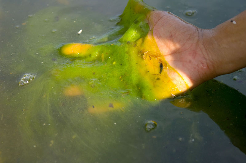 Algae bloom in Reflecting Pool, Washington, DC. 2007 Potomac River, Chesapeake Bay watershed. USEPA photo by Eric Vance